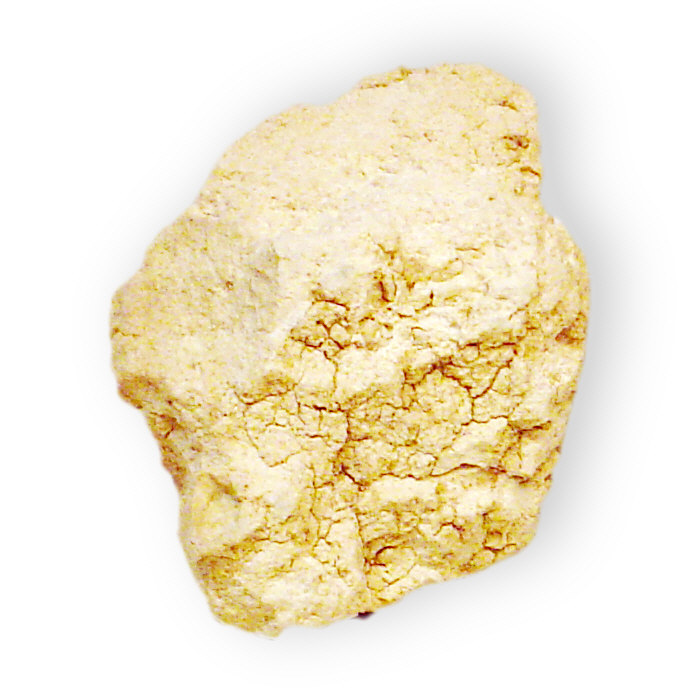 These mineral images are free to use how you wish.